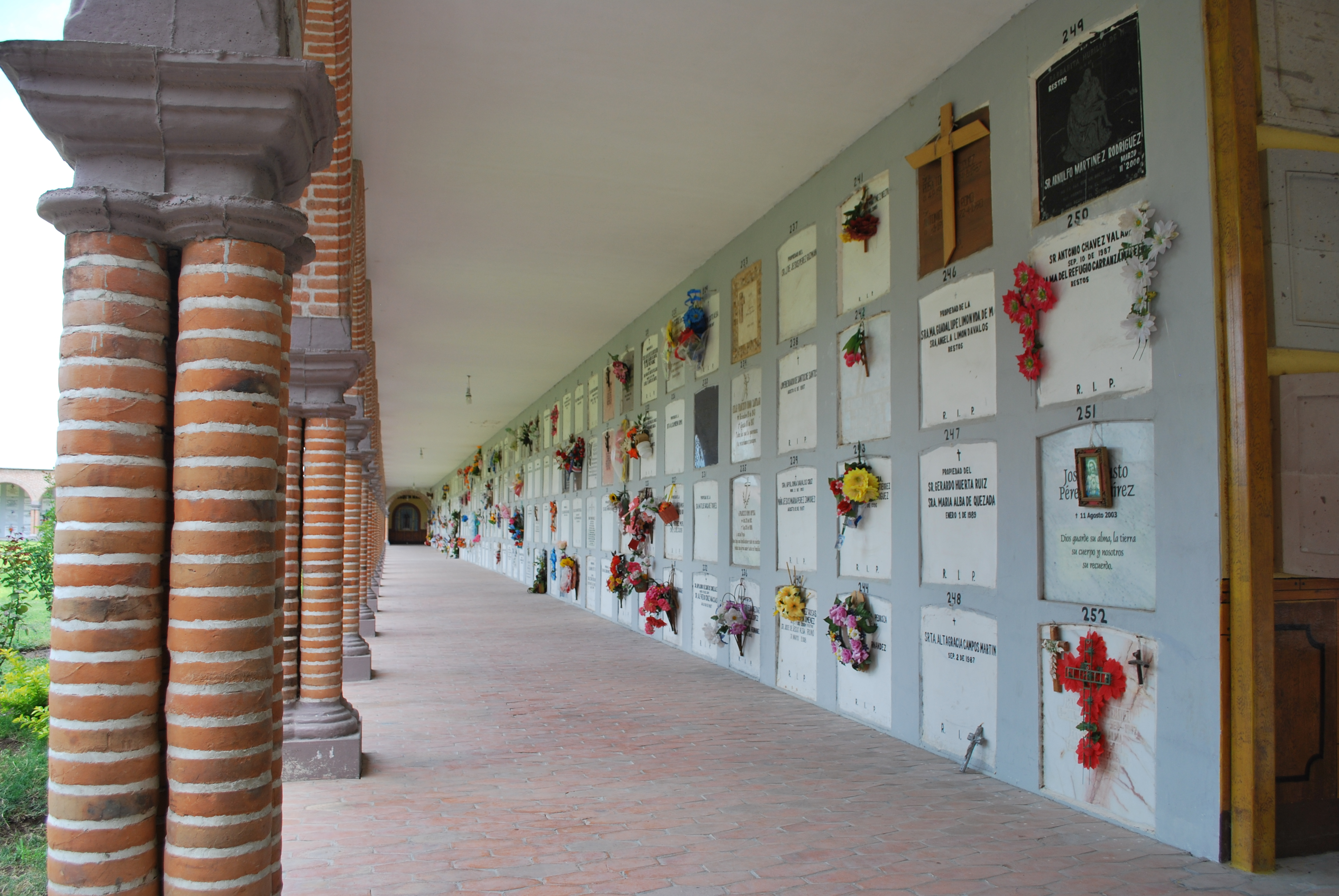 Walkway lined with crypts at the municipal cemetery in Encarnacion de Diaz, Jalisco